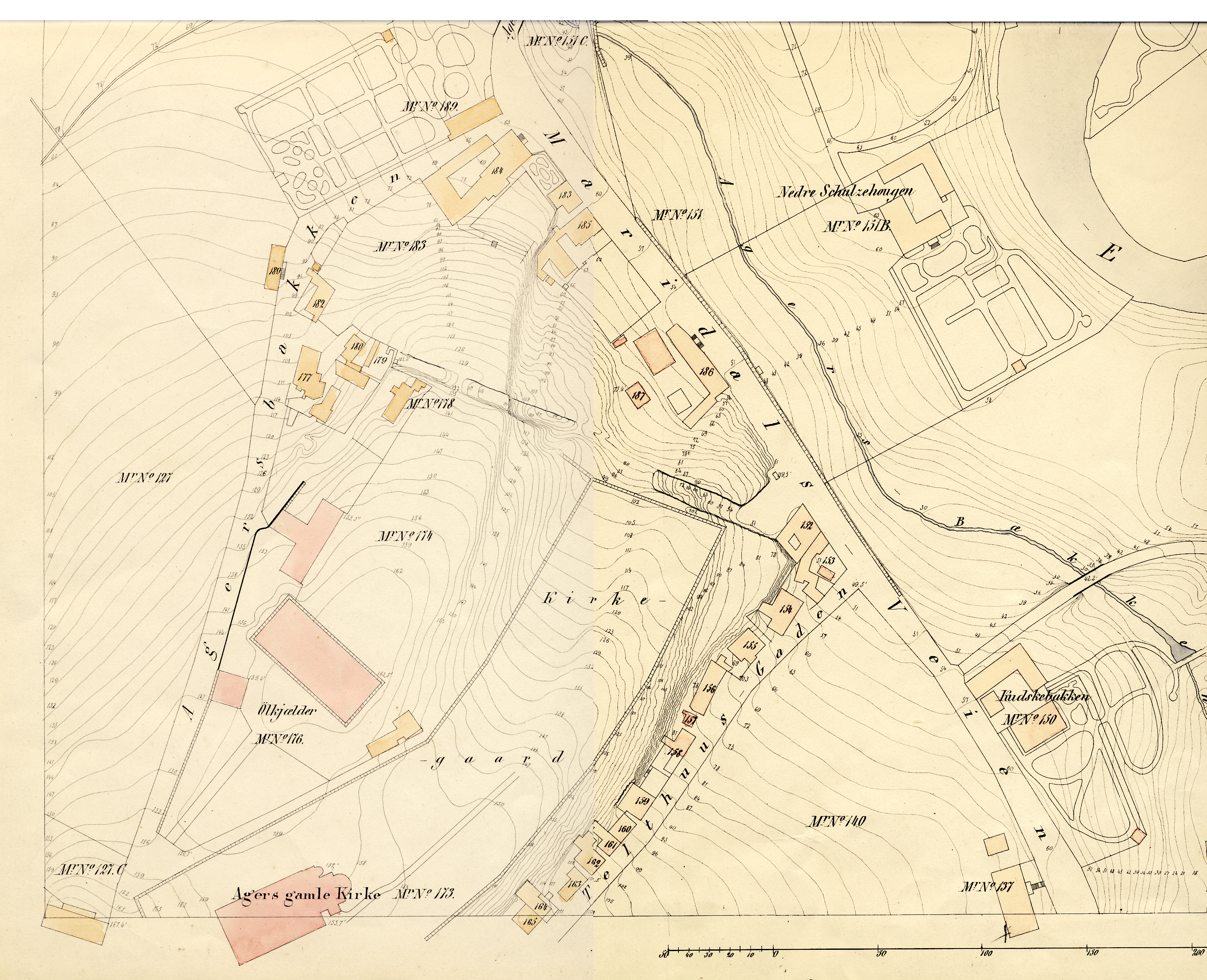 Akersberg with the Aker church. Detail of Næser's map of Christiania, 1858. The canyons indicated by contour lines are pits mediaeval silver mines.